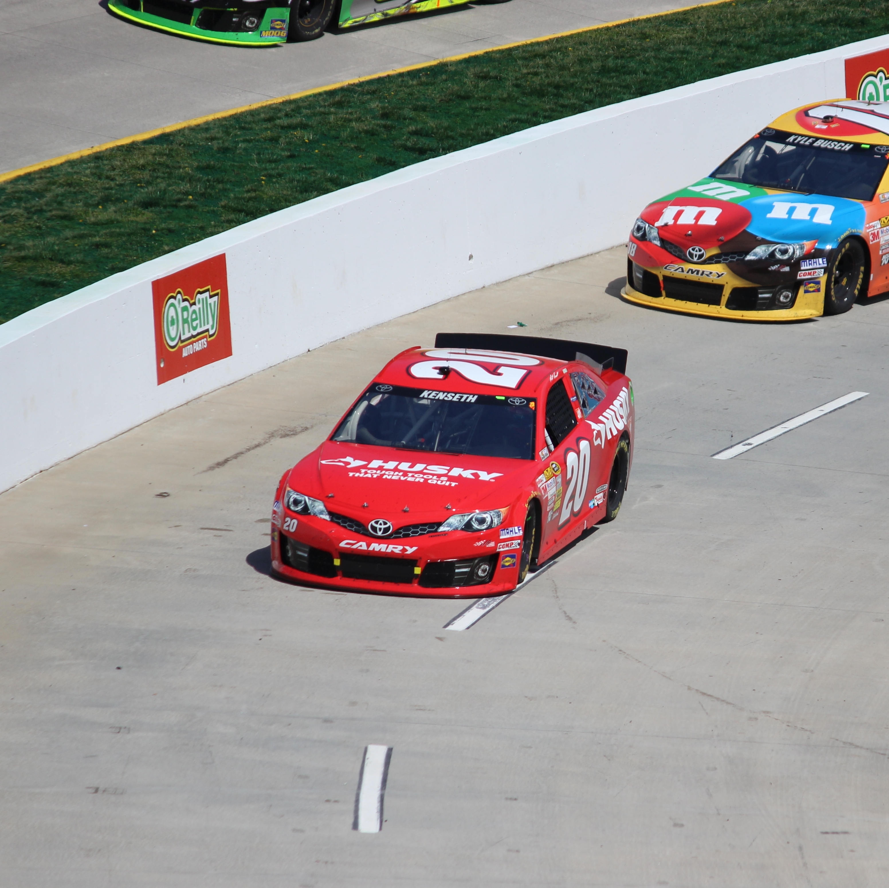 Matt Kenseth during the 2013 STP Gas Booster 500 at Martinsville Speedway on April 7, 2013.